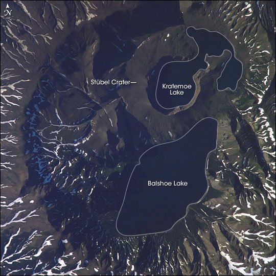 Astronaut photo of Ksudach Volcano, Kamchatka, Russia.